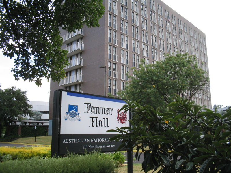 Fenner Hall, north tower, Australian National University, Canberra.